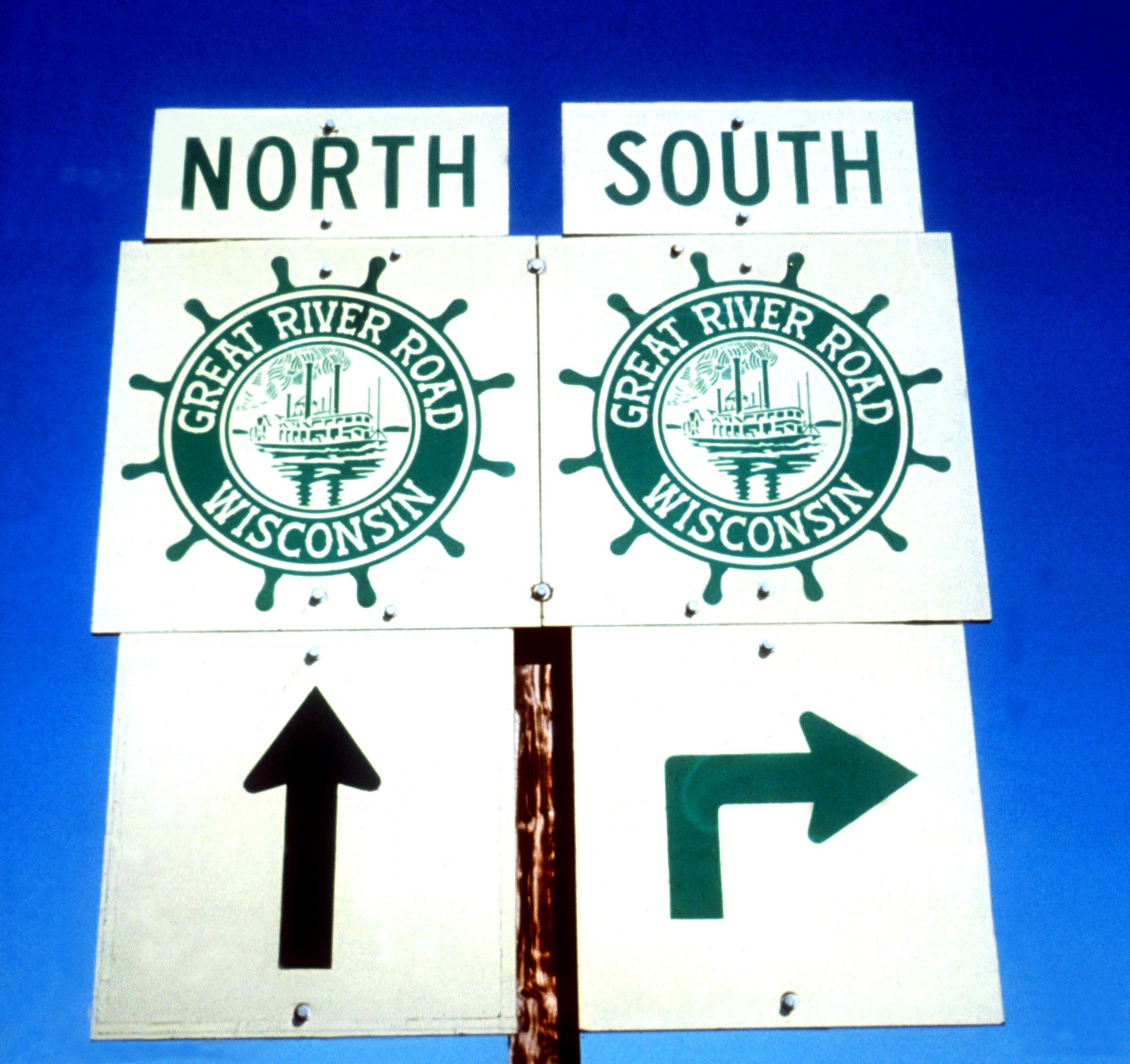 Distinctive road signs along the Great River Road in Wisconsin, USA.